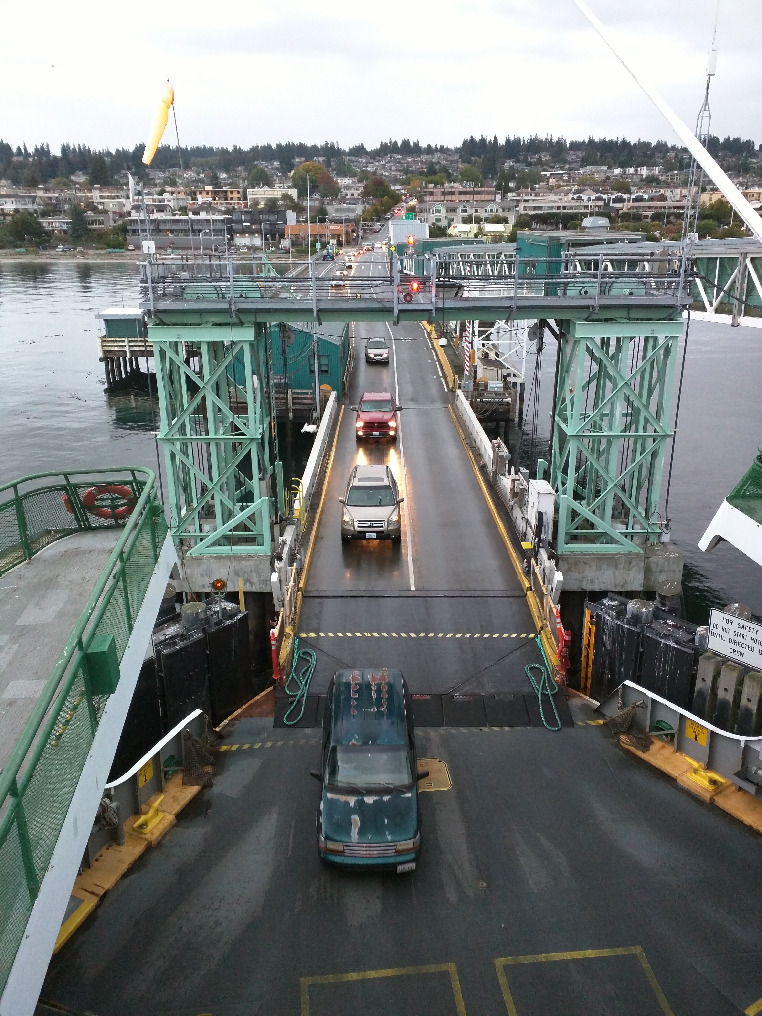 One of the Washington State Ferries vessels on the Edmonds–Kinston route, loading vehicles at the Edmonds ferry terminal, in Sept. 2015.